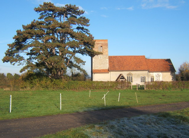 Church of St Mary in Badley, Suffolk, England. A Grade I listed medieval church.